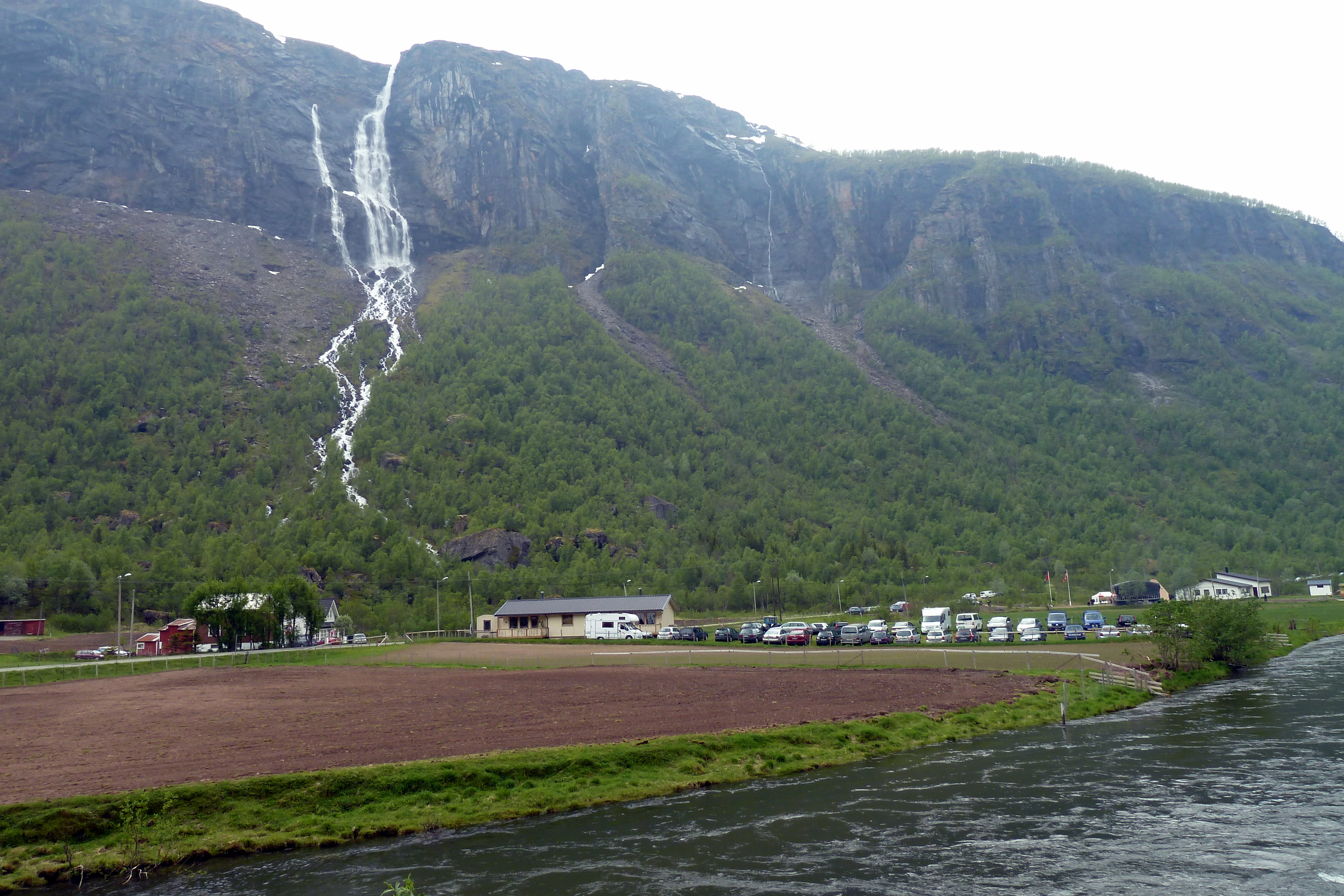 Waterfall, the Henrikafossen, in Spansdalen, Troms, Norway.